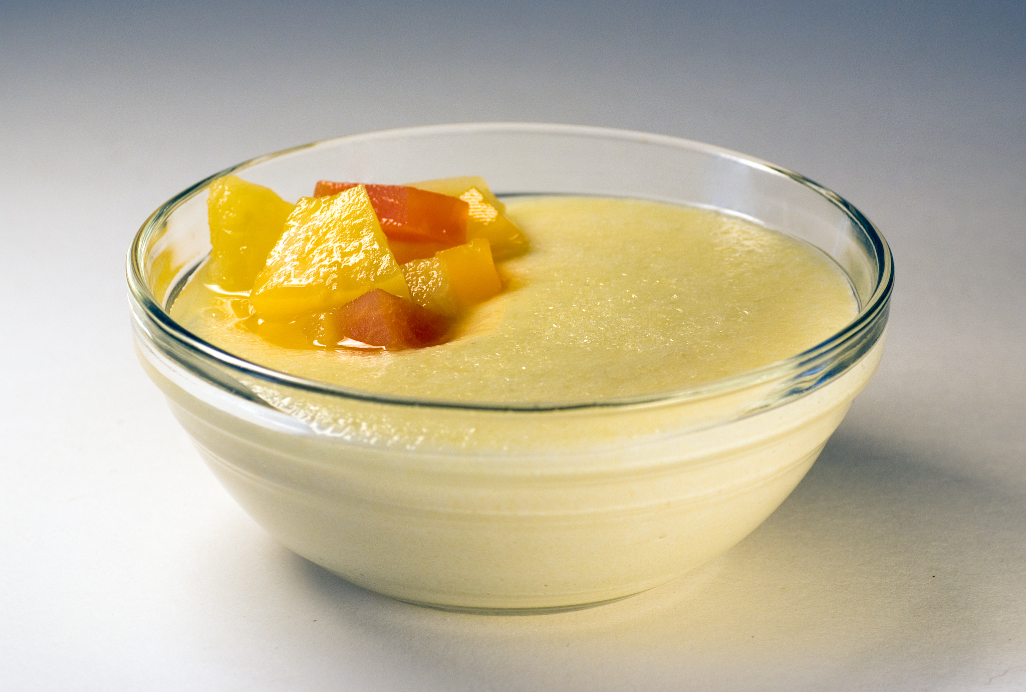 semolina pudding with fruit compote